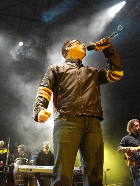 Juan Fernando Velasco en concierto